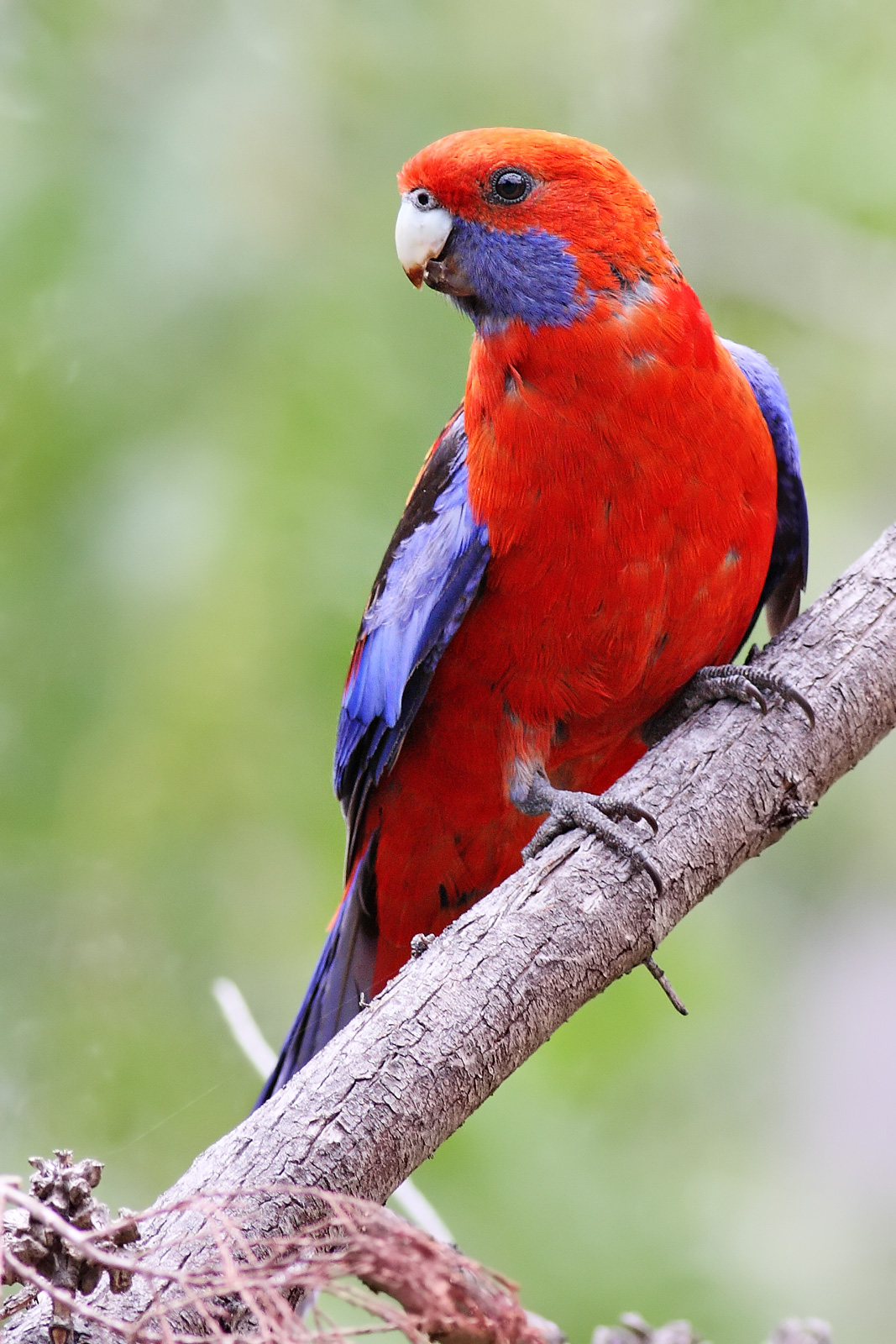 Crimson Rosella (Platycercus elegans) photographed taken in Swifts Creek, Victoria, Australia.